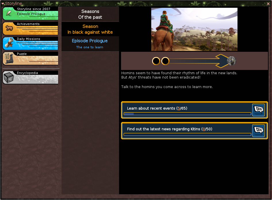 Ryzom Storyline, Season 2: Prologue (interface window)